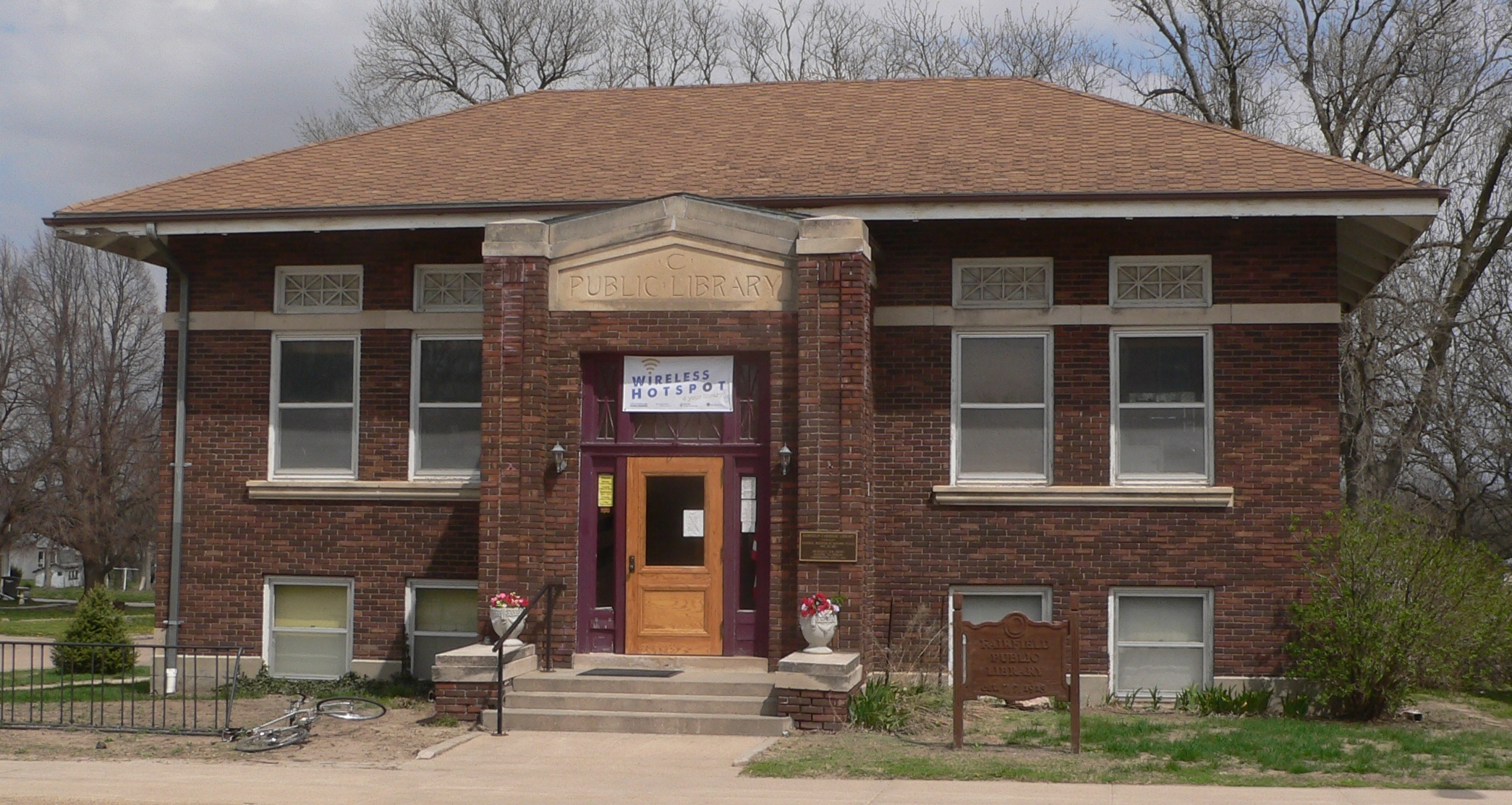 Fairfield, Nebraska Carnegie library; seen from the west.